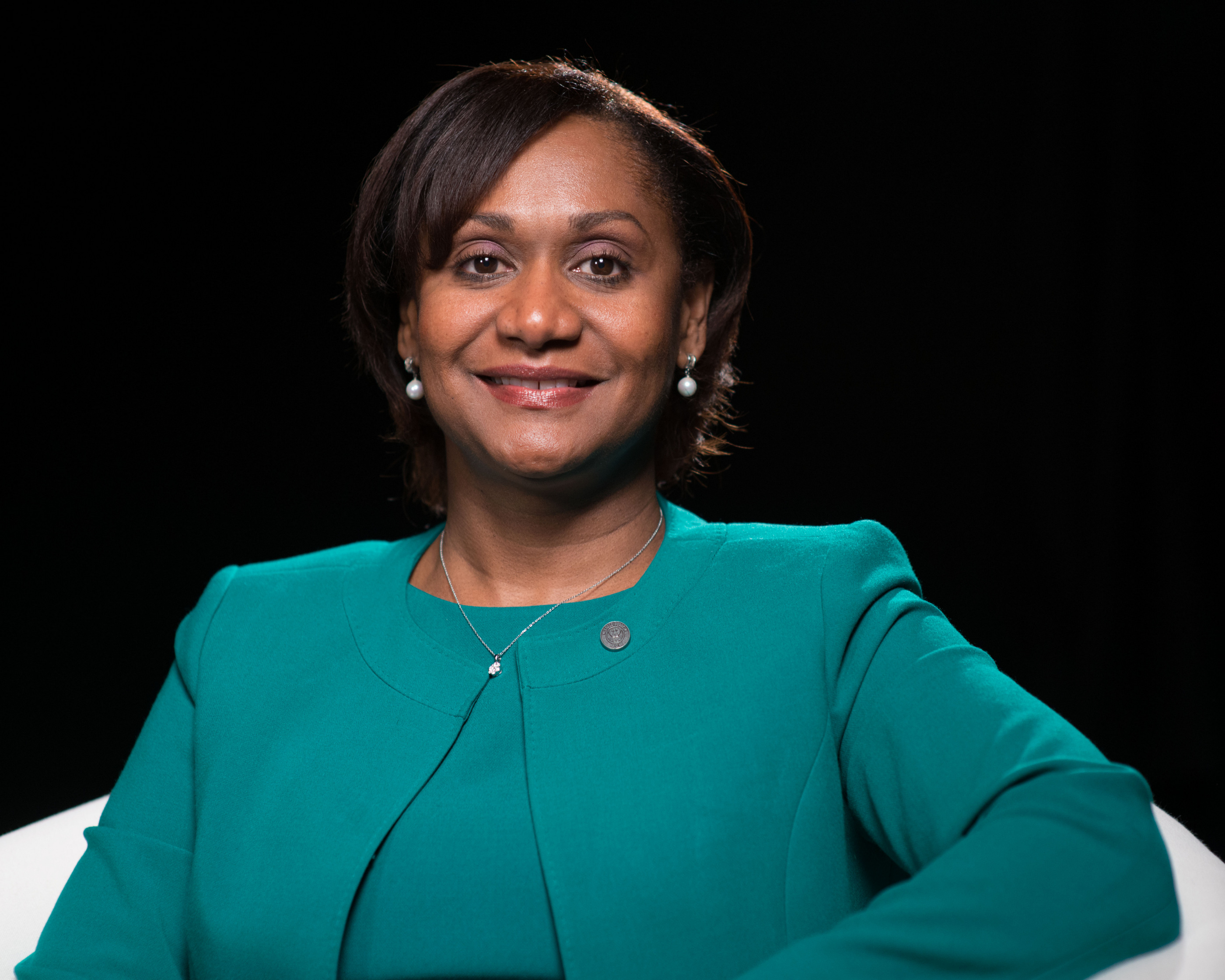 DATE: 10-6-14 LOCATION: Bldg 2s - PAO Studio A SUBJECT: Women@NASA project - Vanessa Wyche PHOTOGRAPHER: Lauren Harnett